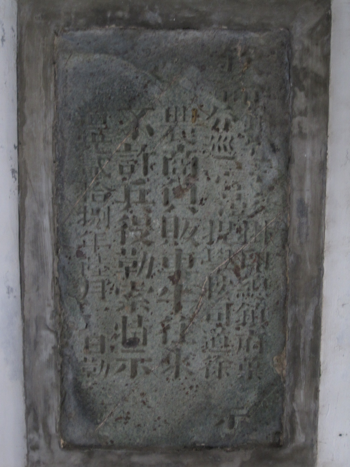 A stele of warning in the Small West Gate of Tainan City.